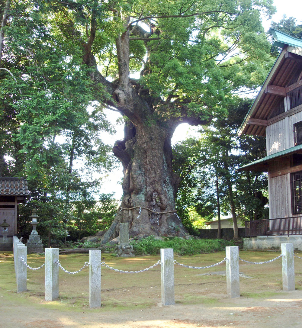 Sugihokowakenomikoto-jinja no Ōkusu is a famous Cinnamomum camphora tree in Kawazu, Shizuoka Prefecture, Japan.